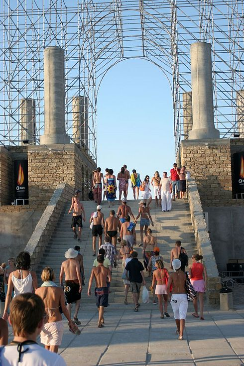 KaZantip entrance